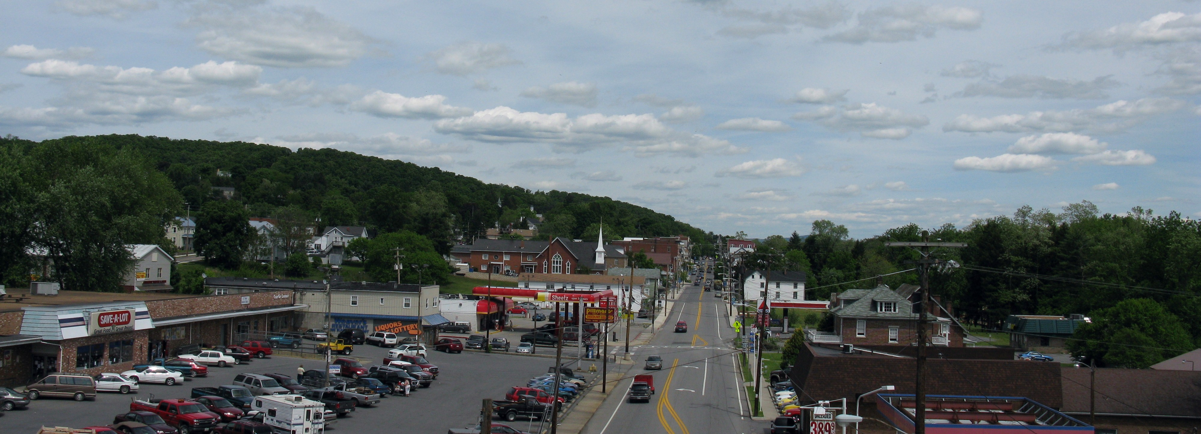 MD 144 viewed from U.S. Route 522, Hancock, Maryland